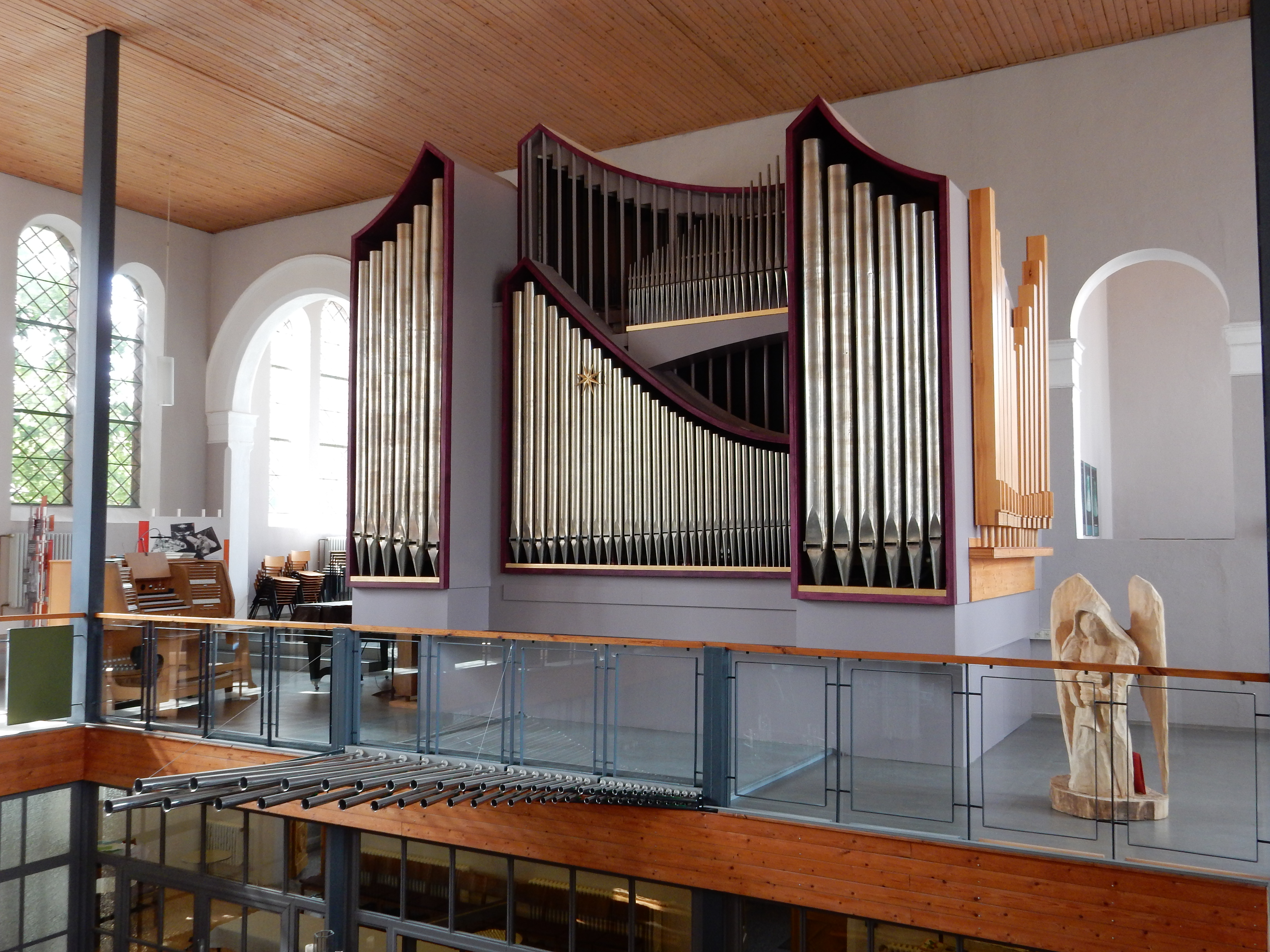 Kemper organ (1956) in Peitz church